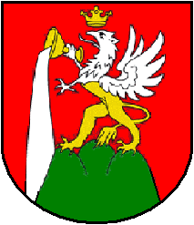 Coat of arms of Leukerbad, Canton of Valais, Switzerland